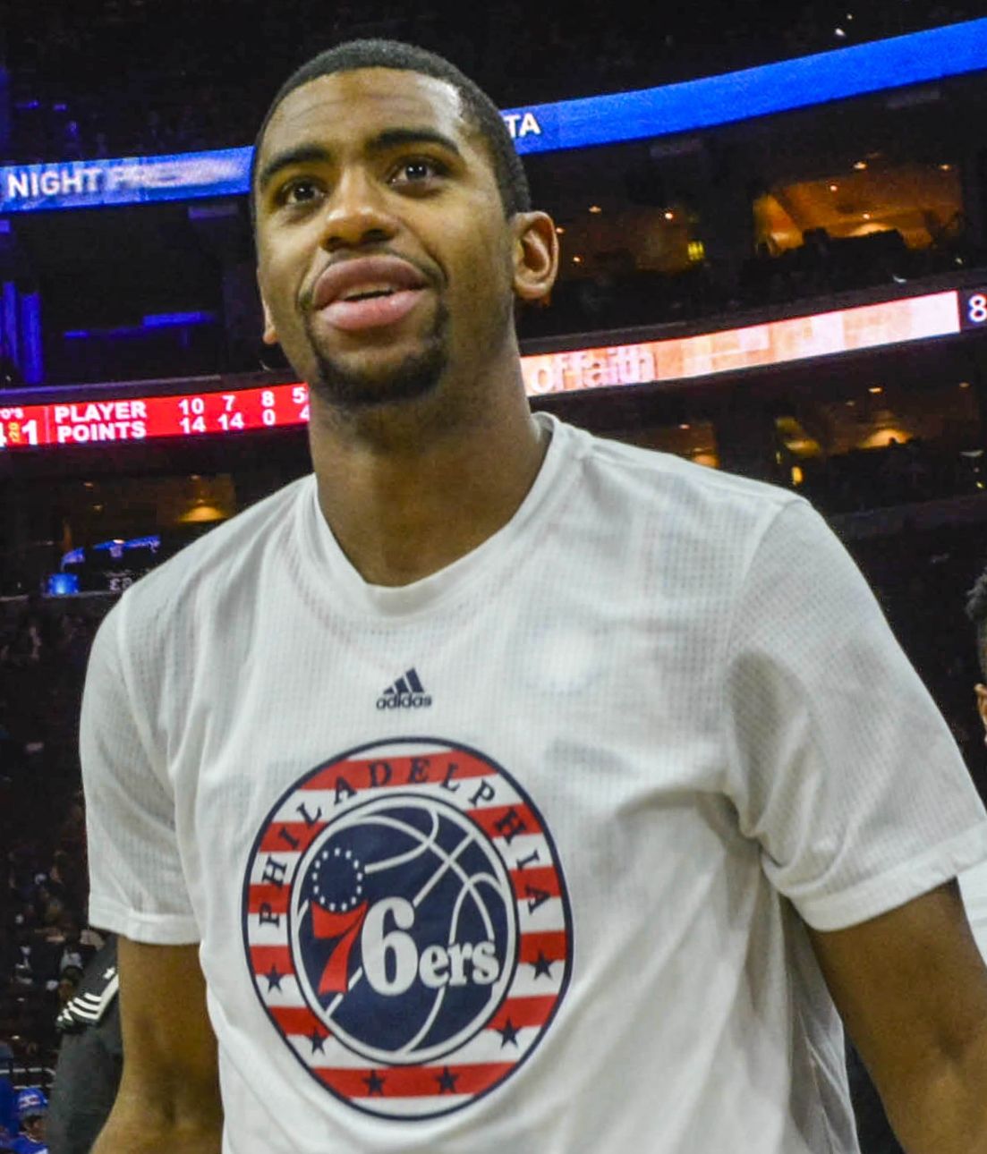 PHILADELPHIA (Nov. 11, 2015) Sailors from Navy Recruiting District Philadelphia greet players at halftime during a Veteran's Day game between the Philadelphia 76ers and the Toronto Raptors at Wells Fargo Center.